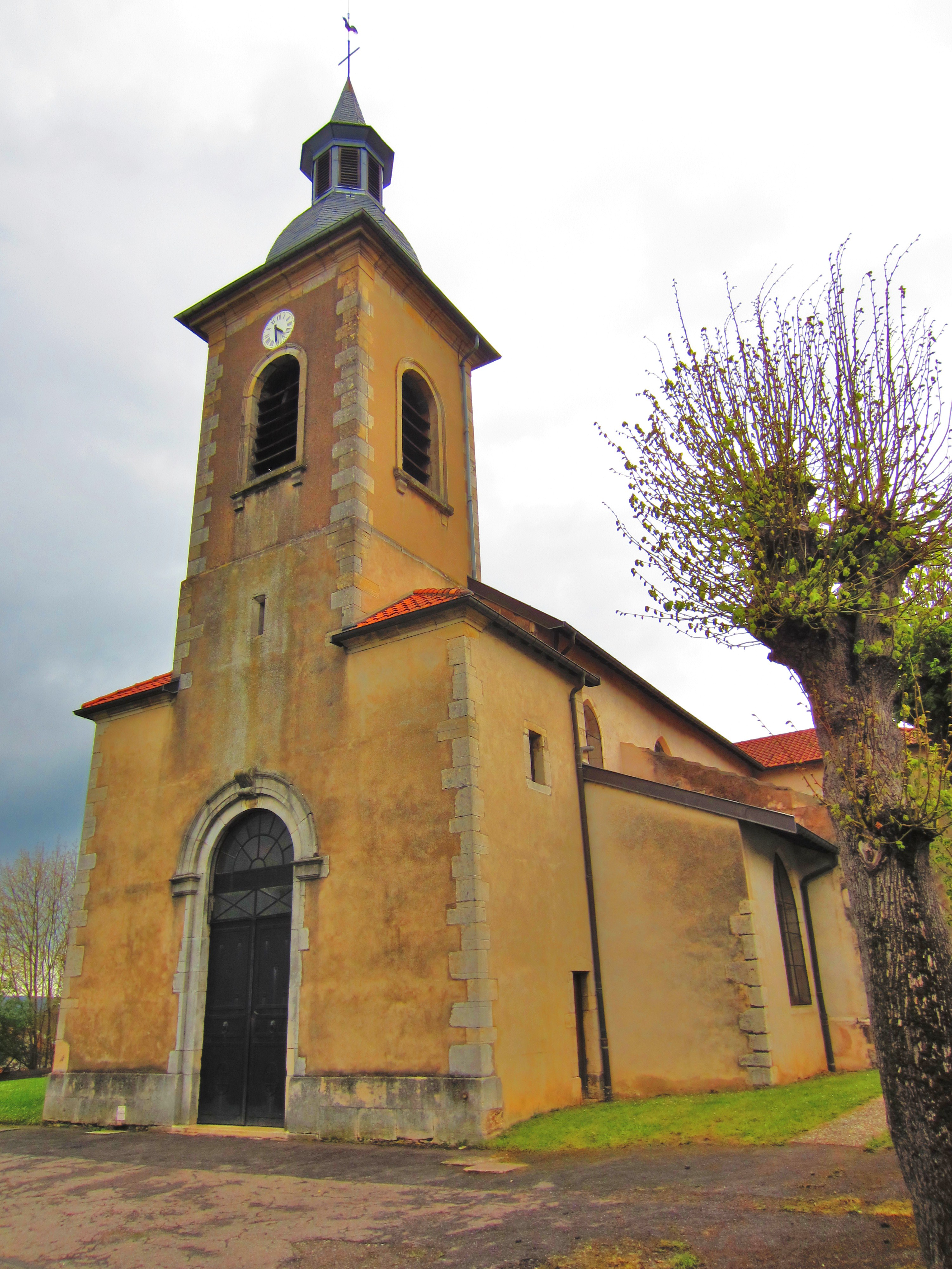 Frouard church